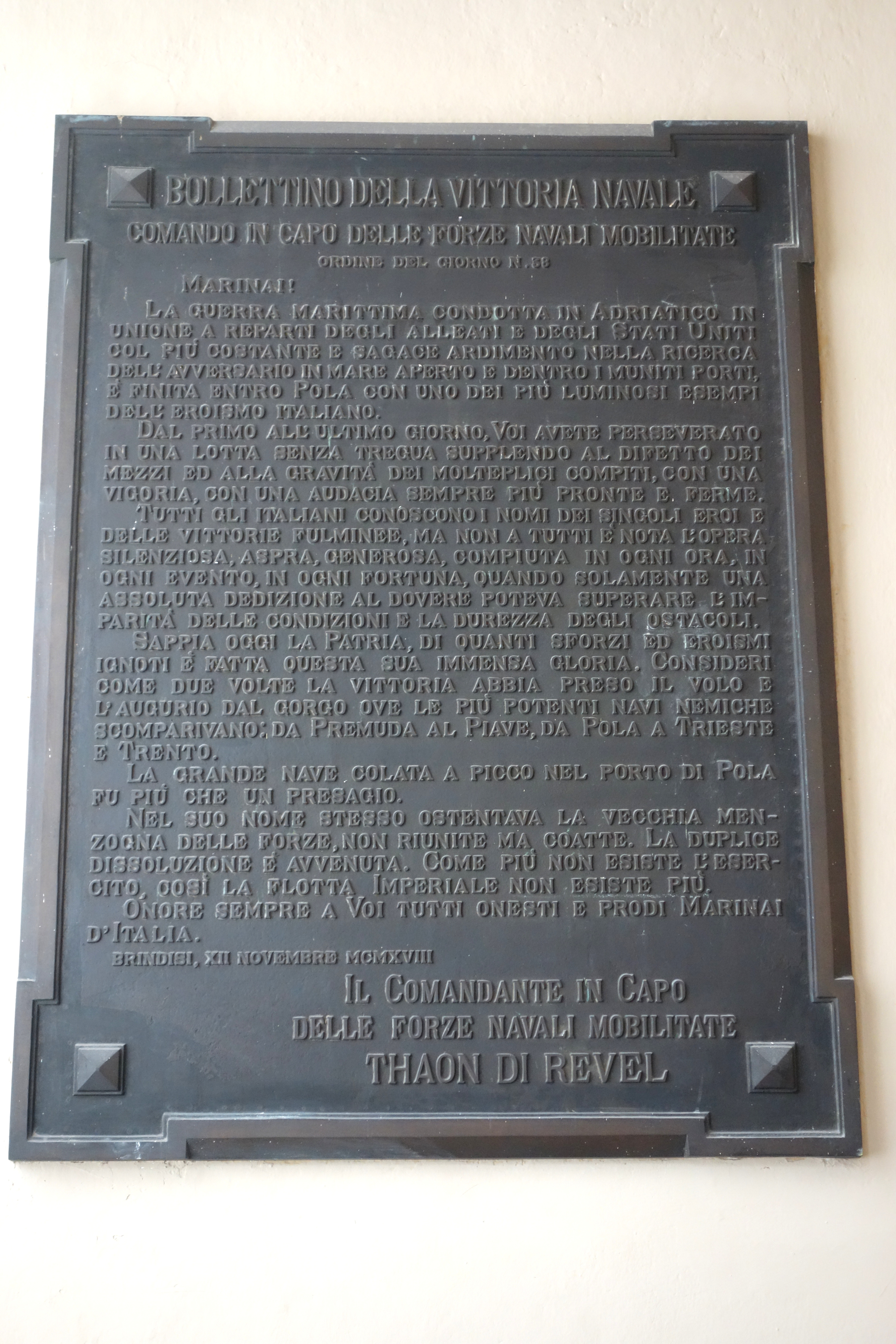 Bollettino della Vittoria Navale plaque - Villa Giustiniani Cambiaso - Via Montallegro, 1, Genoa, Italy.